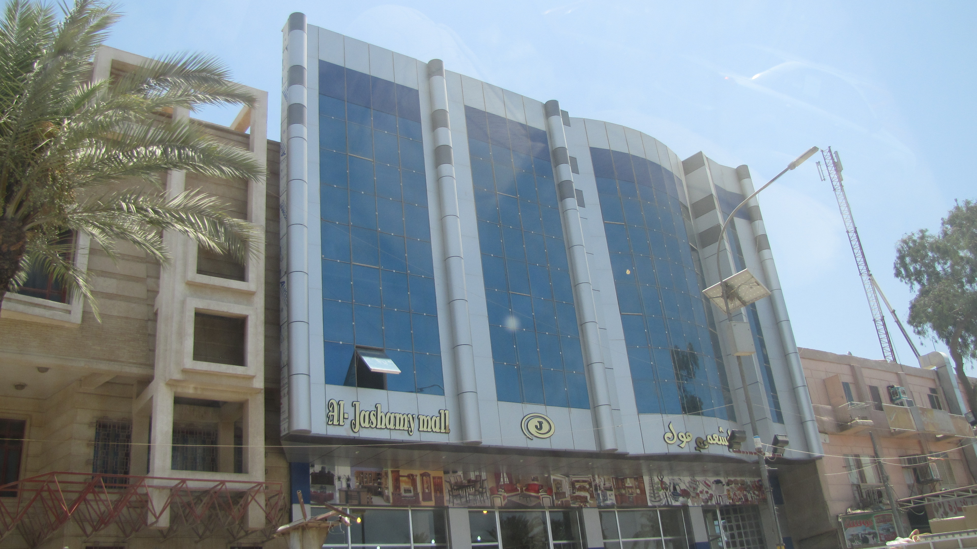 Al Mansour District Baghdad 2010